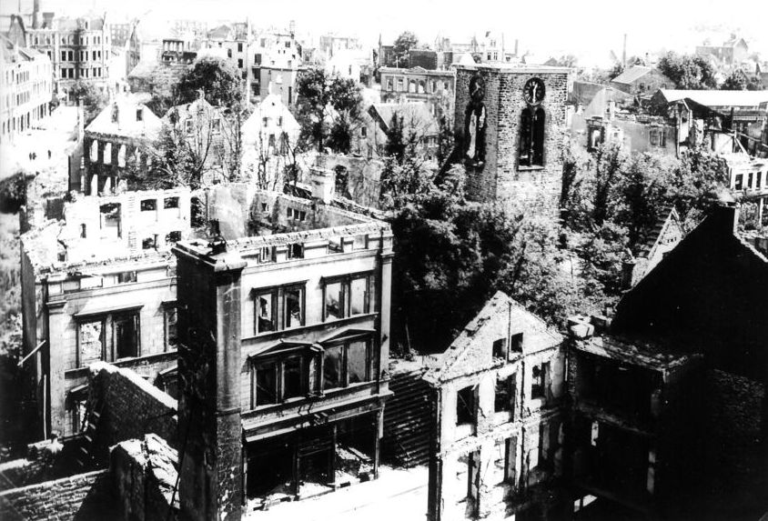 city of Witten 1945